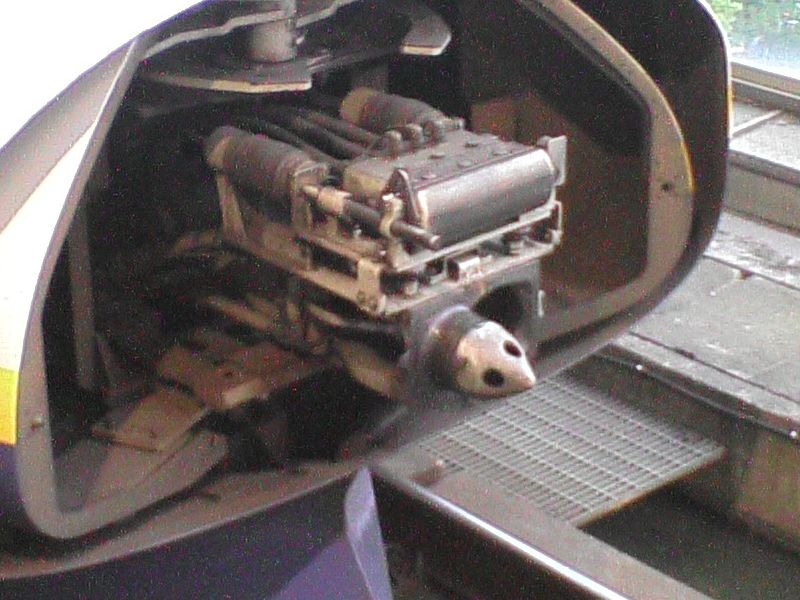 Picture of the E4_Series_Shinkansen's Shibata-type coupler.